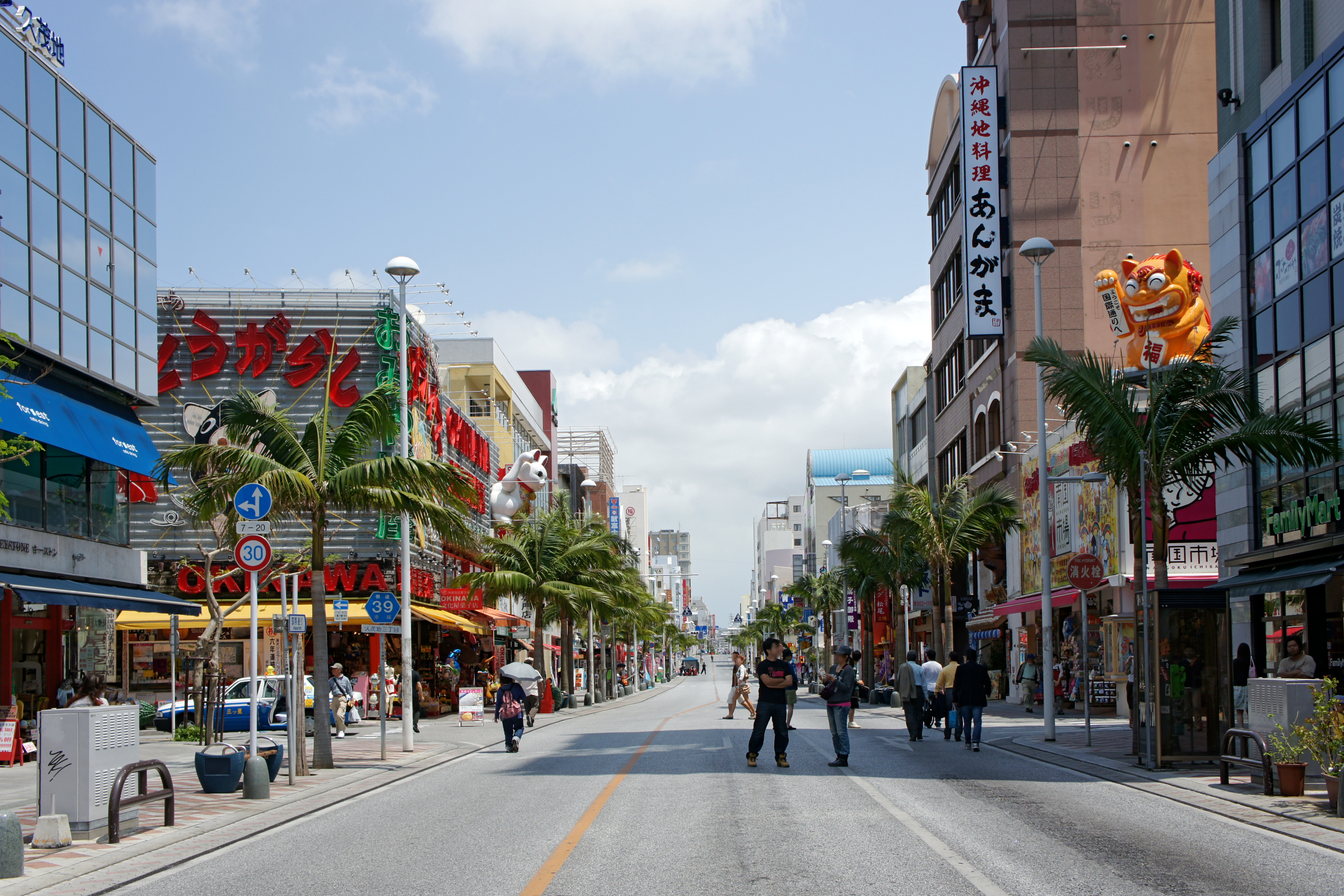 Kokusai-dori (Kokusai street), Naha, Okinawa prefecture, Japan